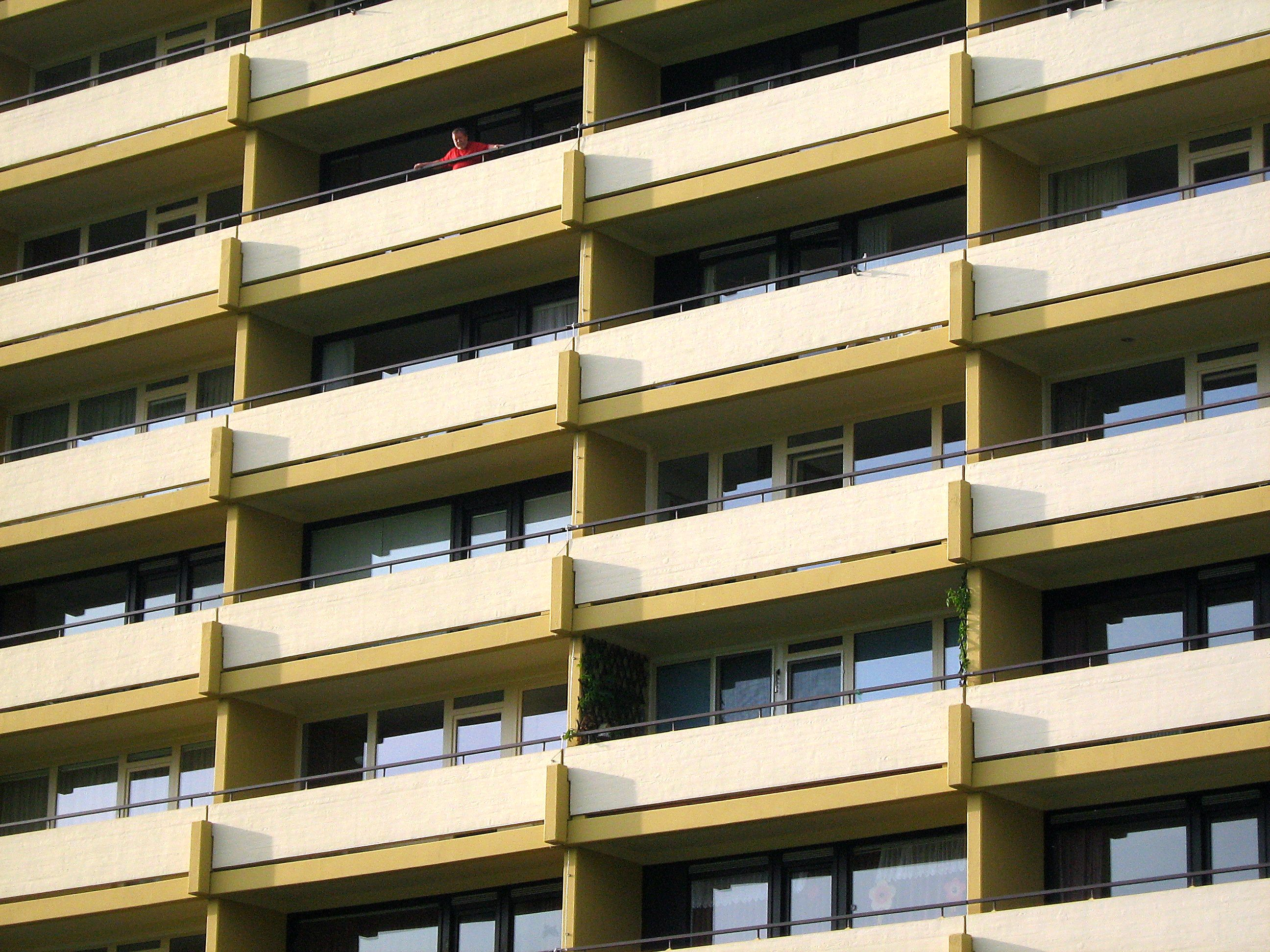 Balconies in Hohegeiss, Harz, Germany